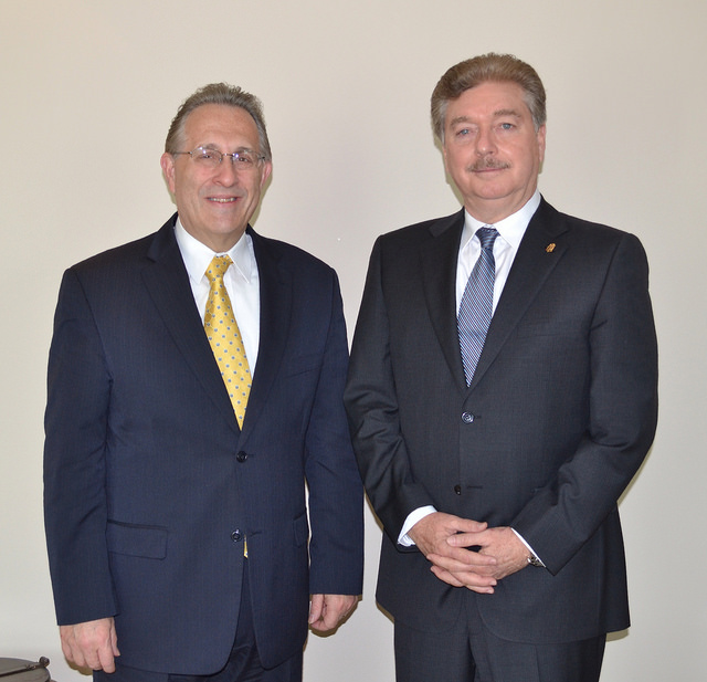 U.S. Ambassador Wayne meets with Baja California Governor Vega